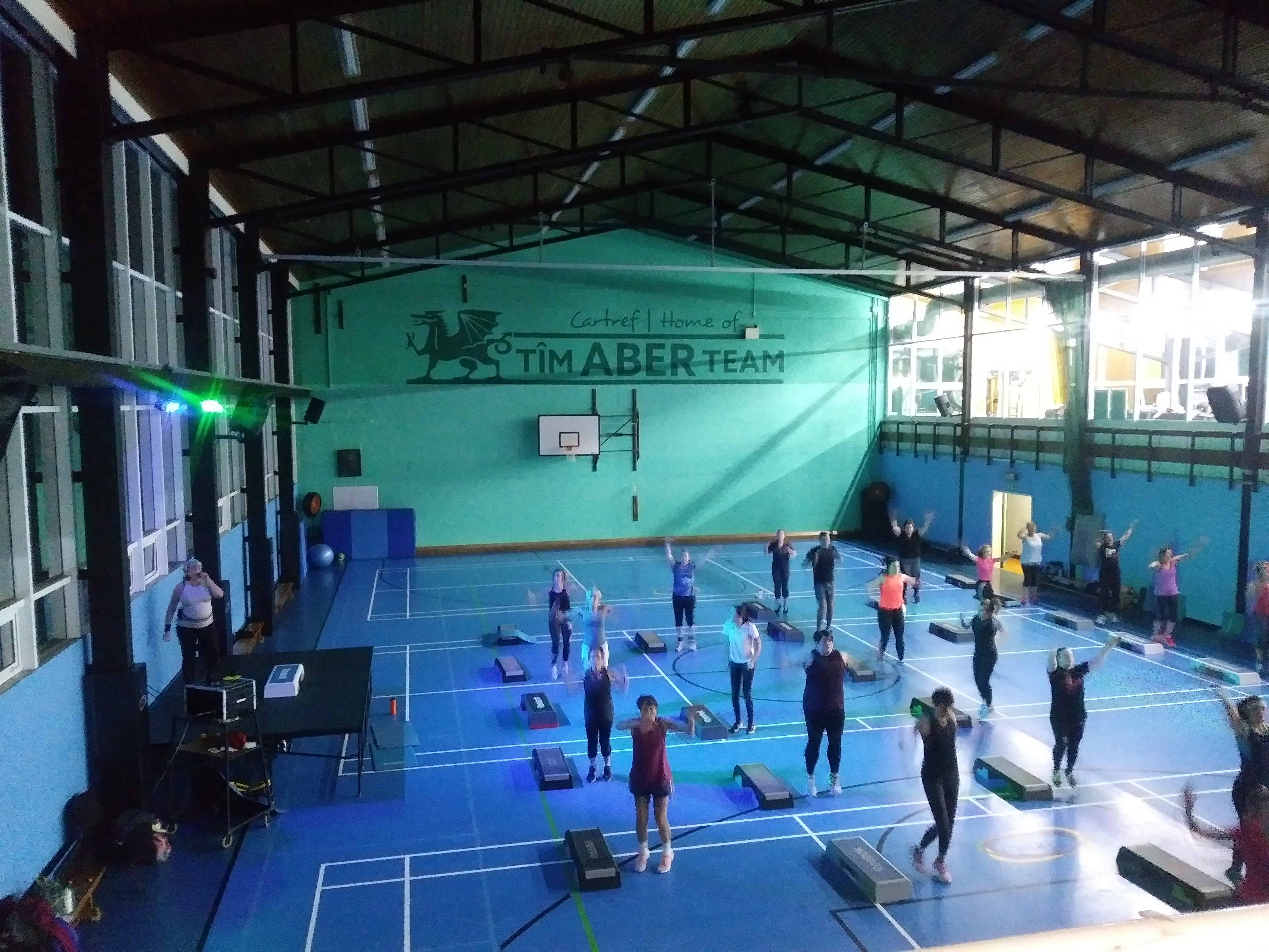 Aberystwyth University Gymnasium Hall